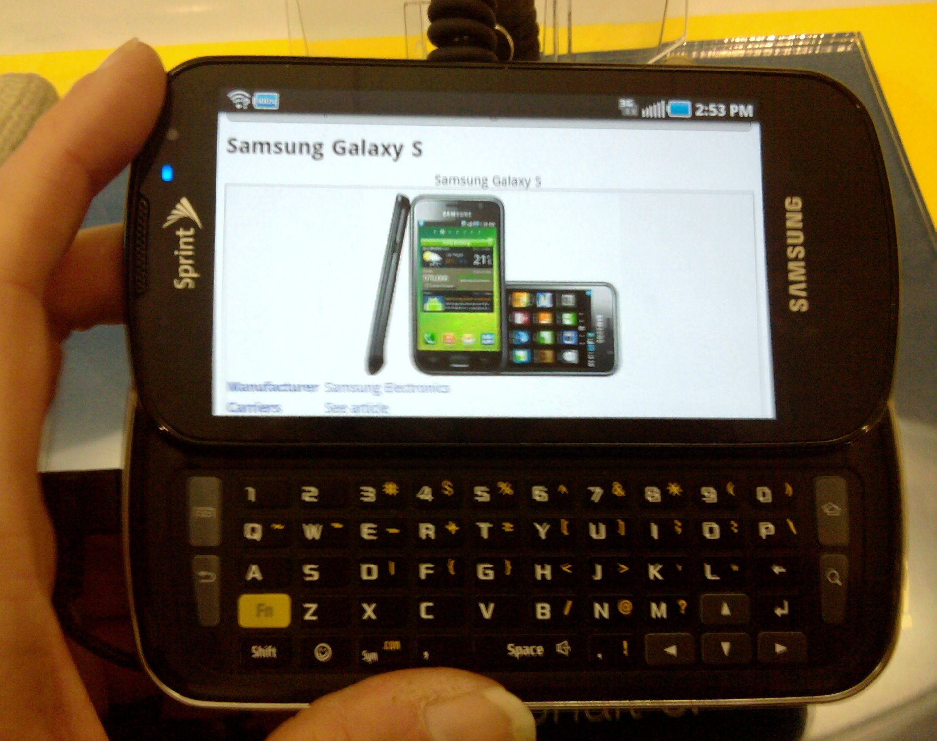 Samsung Galaxy S, Sprint version, in April 2011 with keyboard extended.